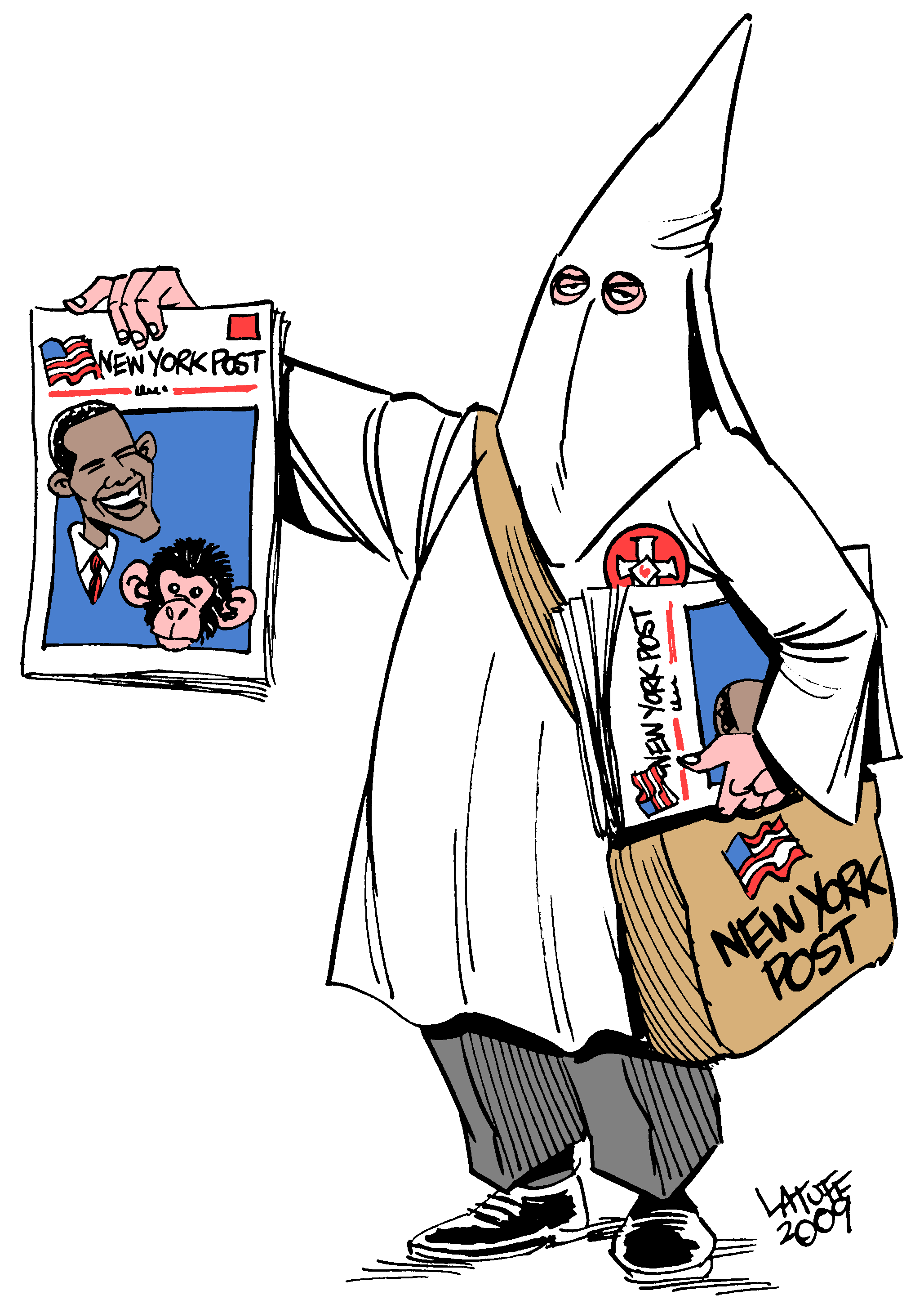 A New York Post cartoon that some have interpreted as comparing President Barack Obama to a violent chimpanzee gunned down by police has drawn outrage from civil rights leaders.